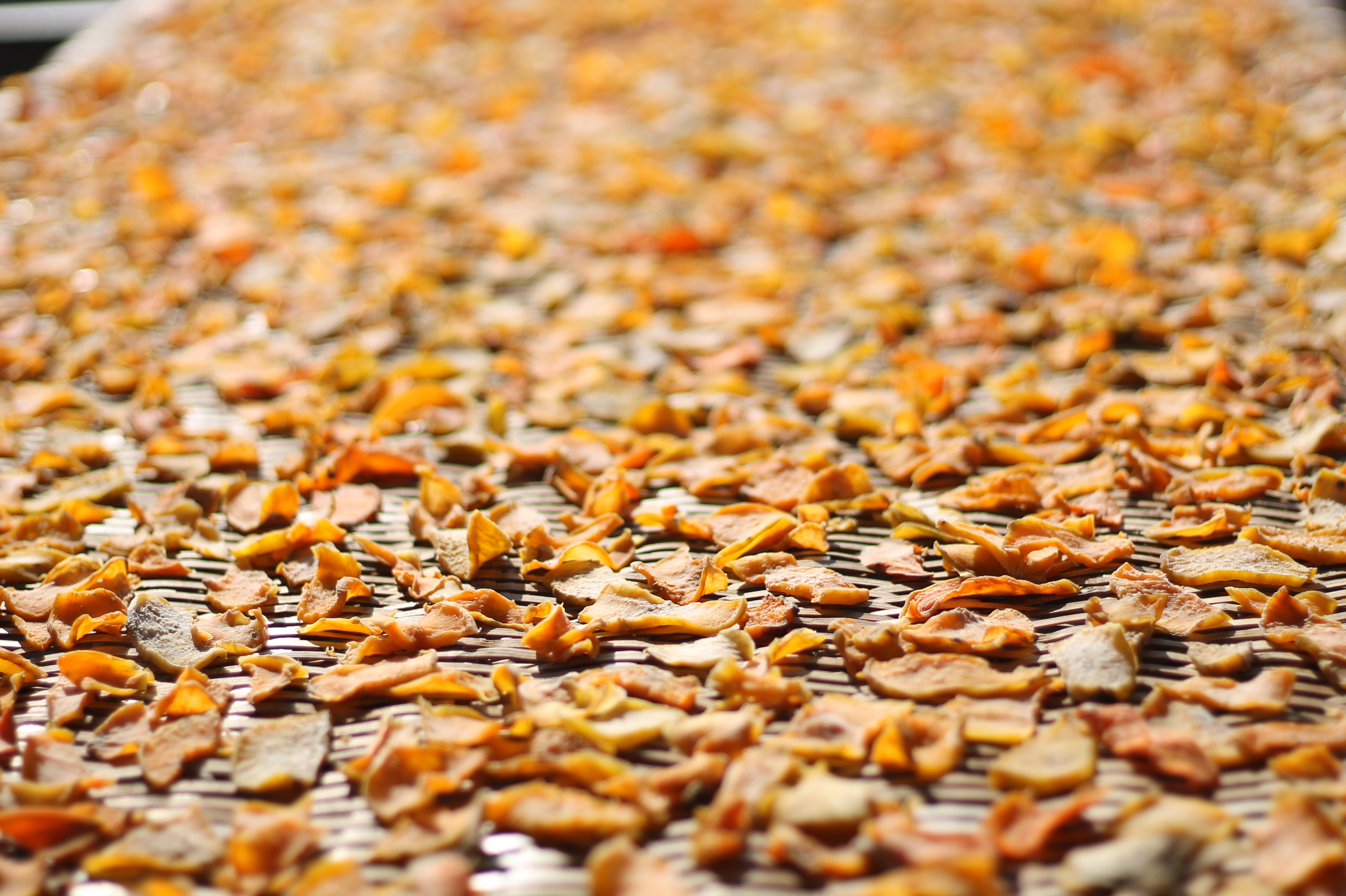 Sweet potatoes set out to dry in the fall. Lishui, China